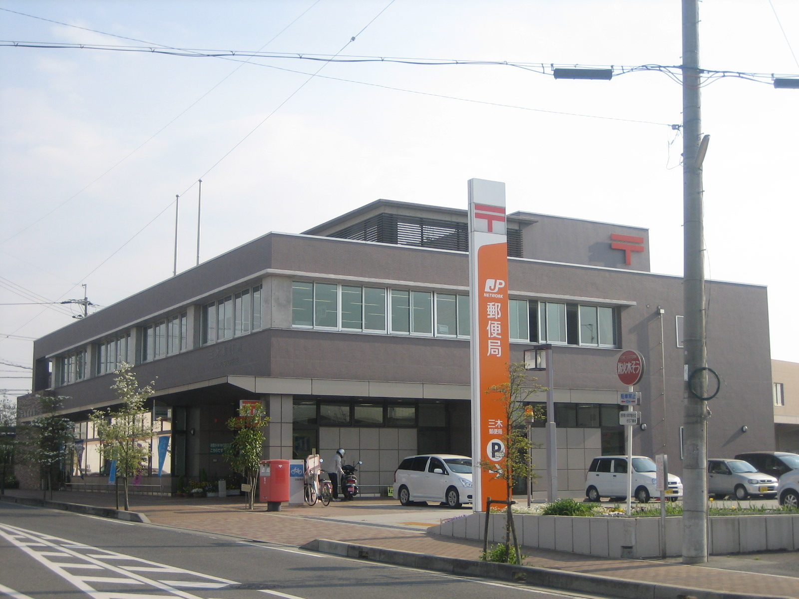 Miki post office in Hyogo, Japan